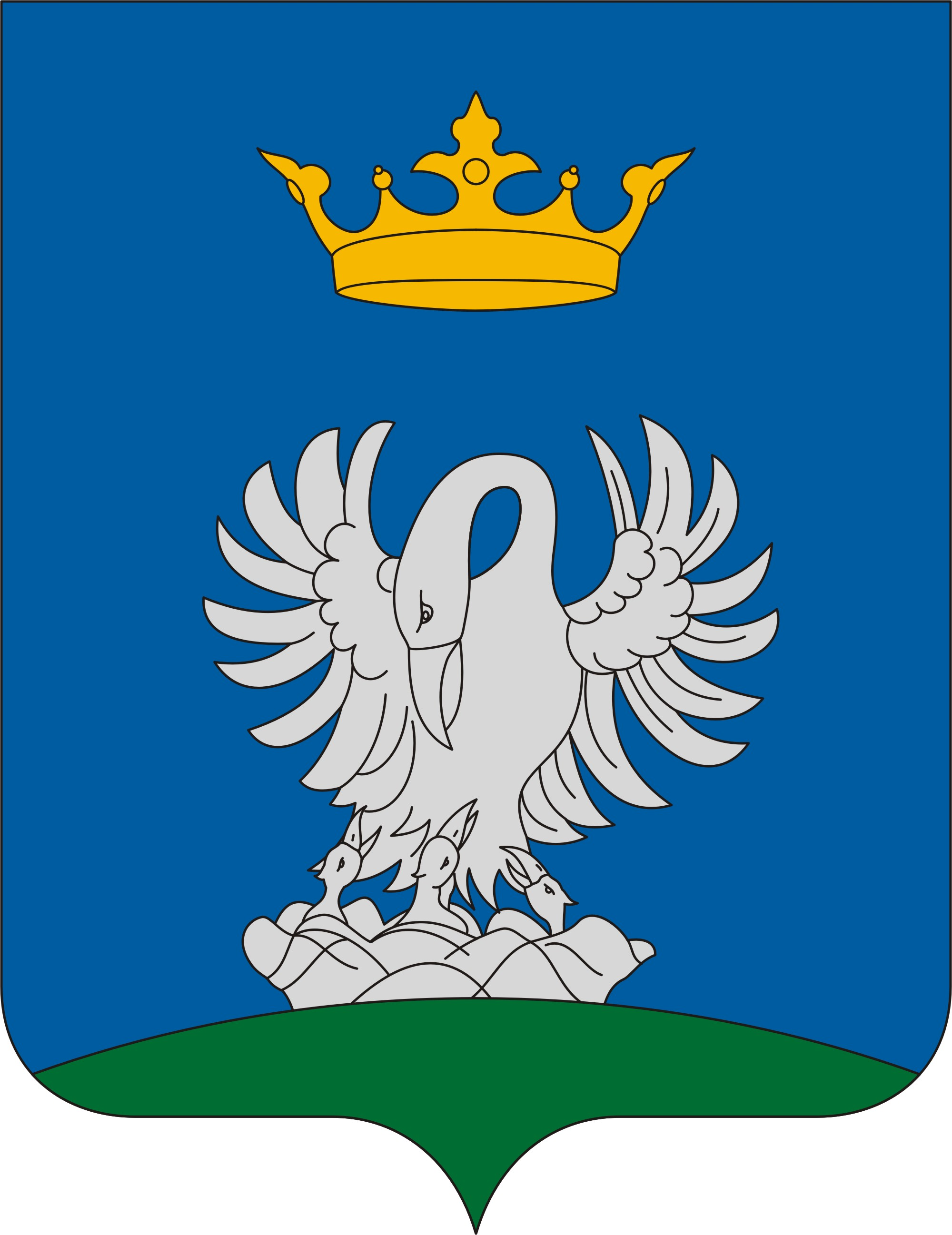 Coat of arms of Kistokaj, Hungary